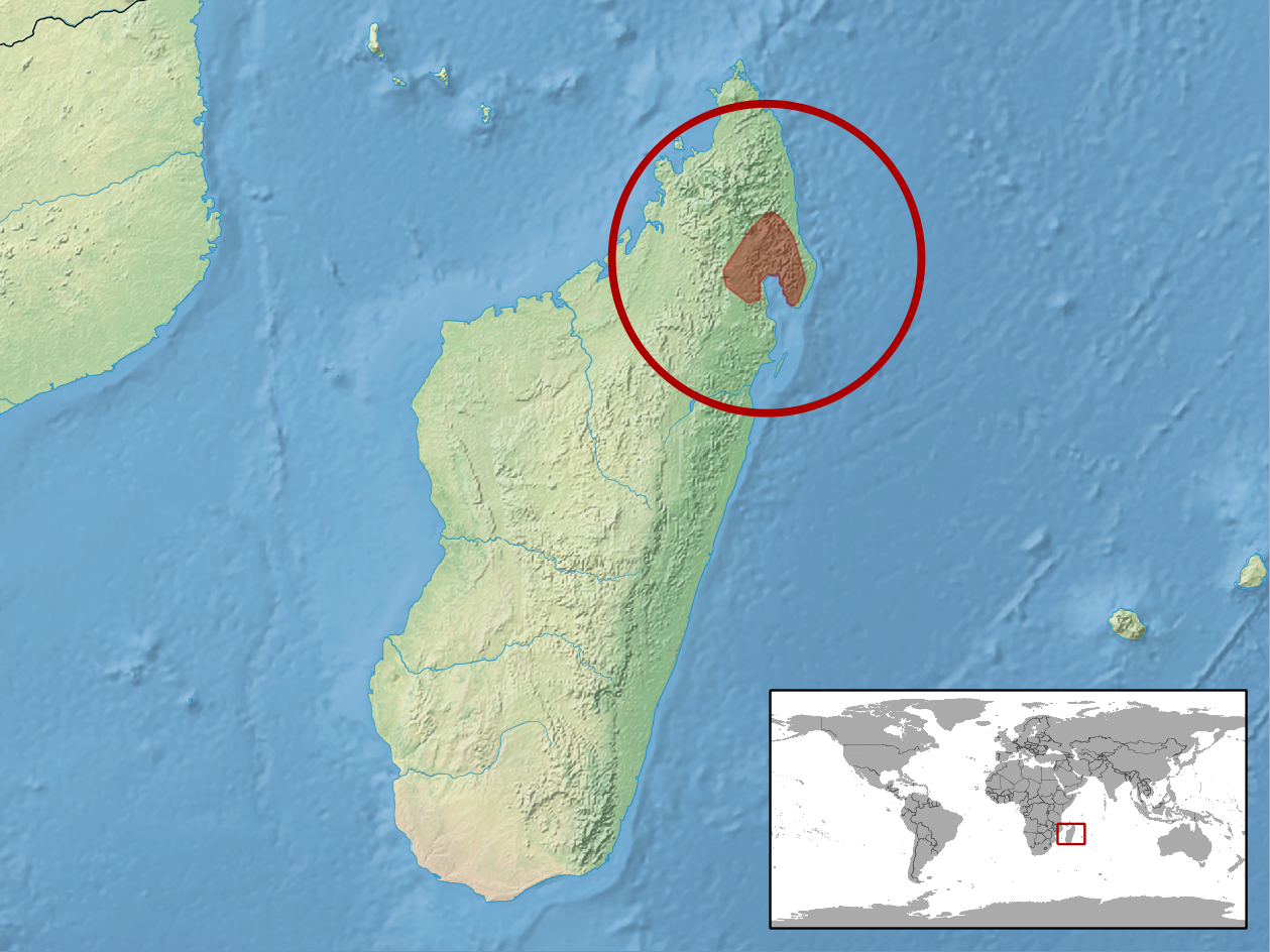 geographic distribution of Brookesia vadoni (Native: Madagascar)